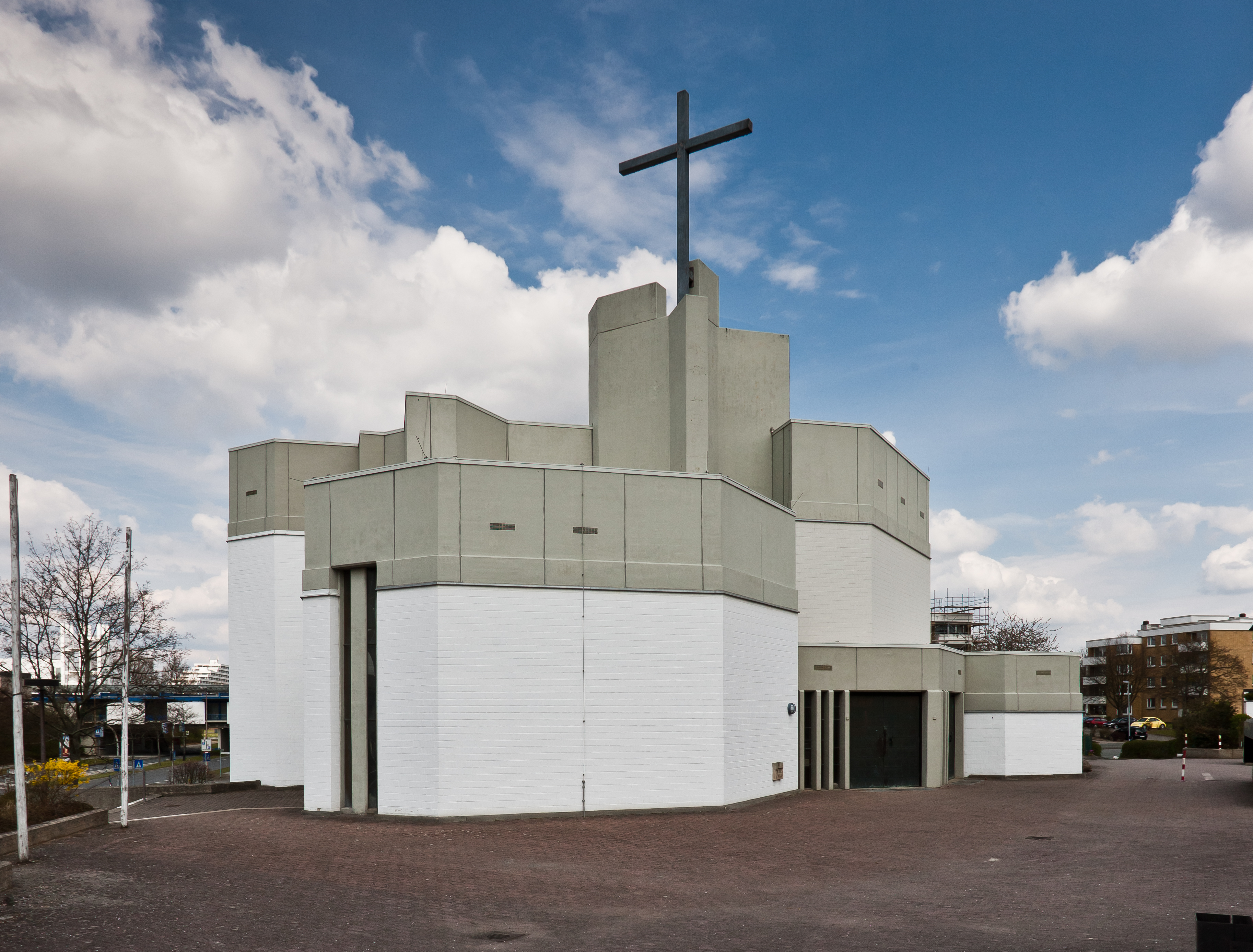 Katholische Filialkirche St. Raphael, Detmerode, Wolfsburg, Germany